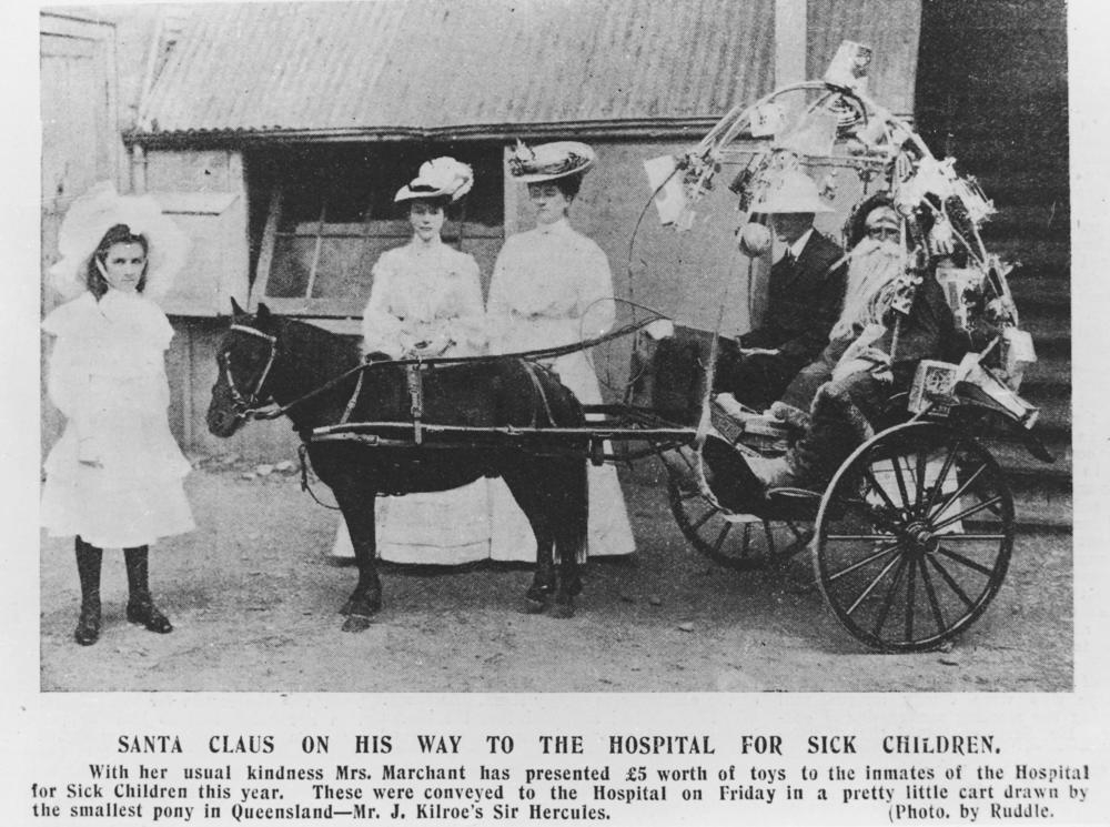 Creator: Ruddle Description: Caption on photo: Santa Claus on his way to the Hospital for Sick Children. With her usual kindness Mrs. Marchant has presented £5 worth of toys to the inmates of the Hospital for Sick Chirldren this year. These were conveyed to the Hospital on Friday in a pretty little cart drawn by the smallest pony in Queensland - Mr. J. Kilroe's Sir Hercules. View this page at the State Library of Queensland: Information about State Library of Queensland’s collection